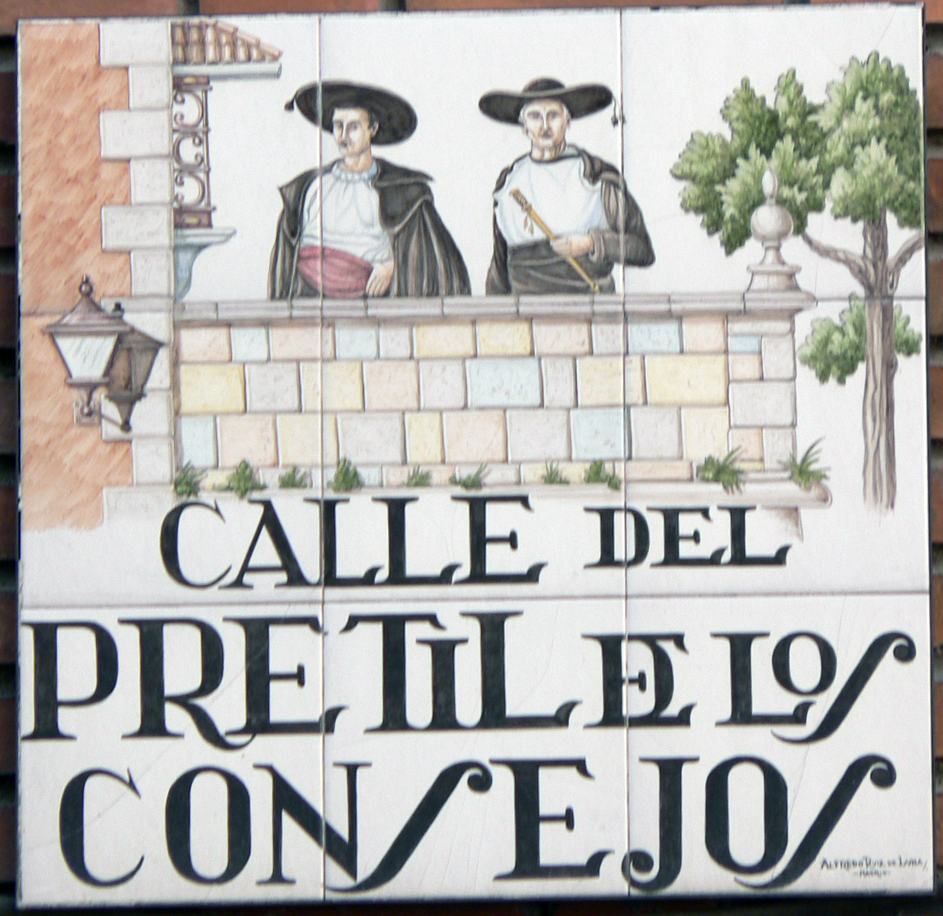 Sign of Calle del Pretil de los Consejos (street, Centro district) in Madrid (Spain).